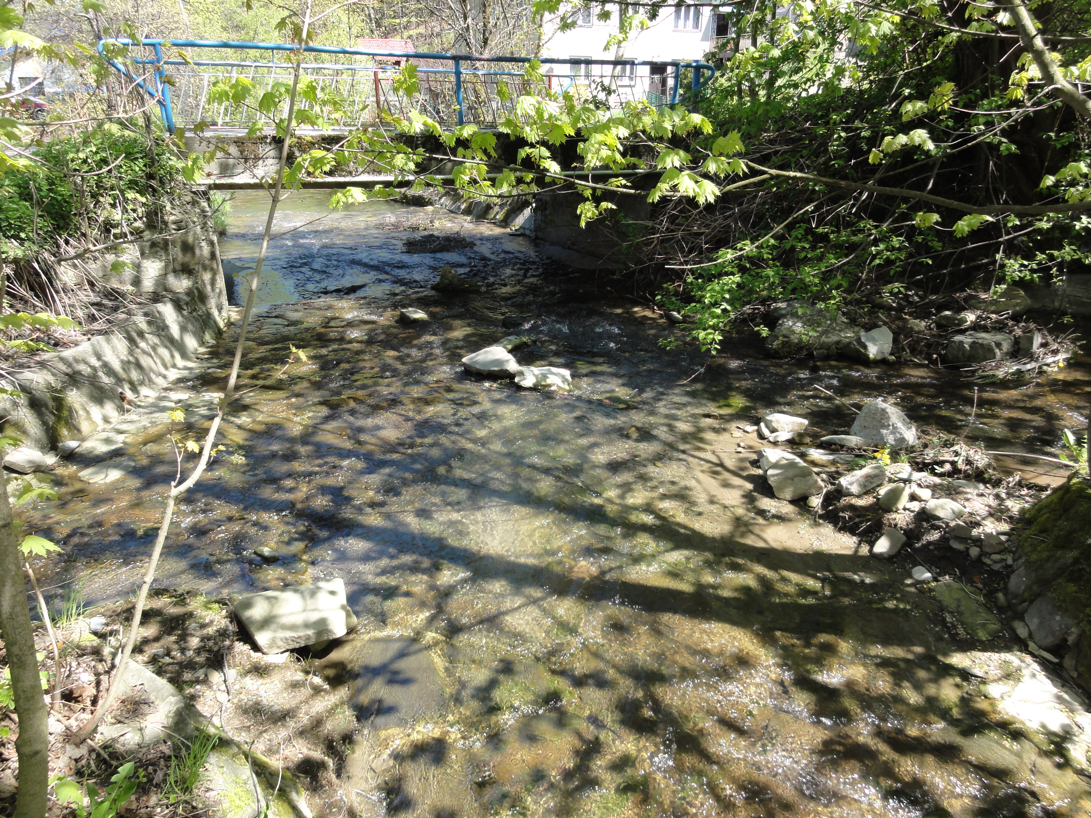 Stream Jawornik in Wisła and it's two small tributaries